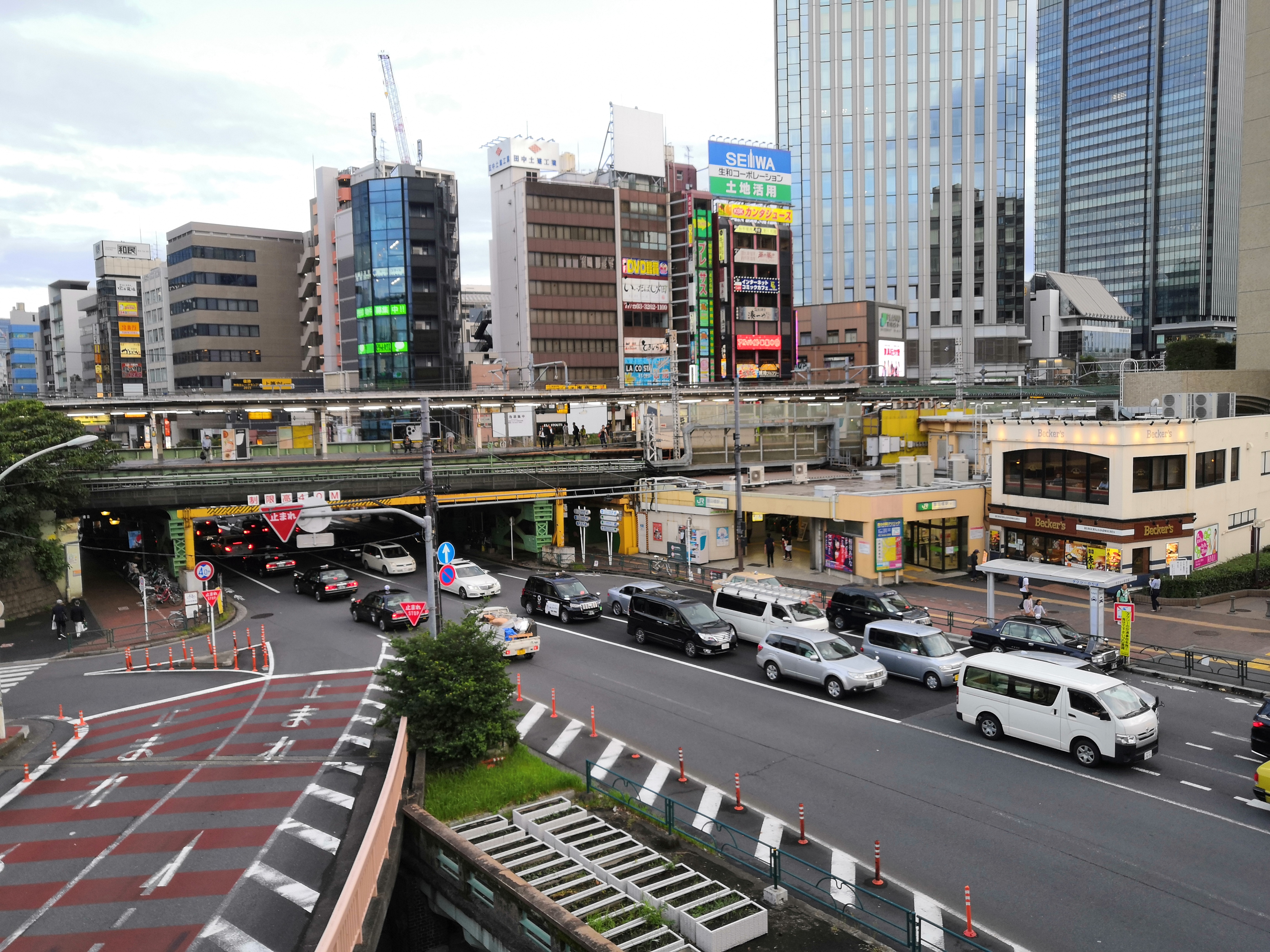 JR East Iidabashi Station seen from the pedestrians foot bridge